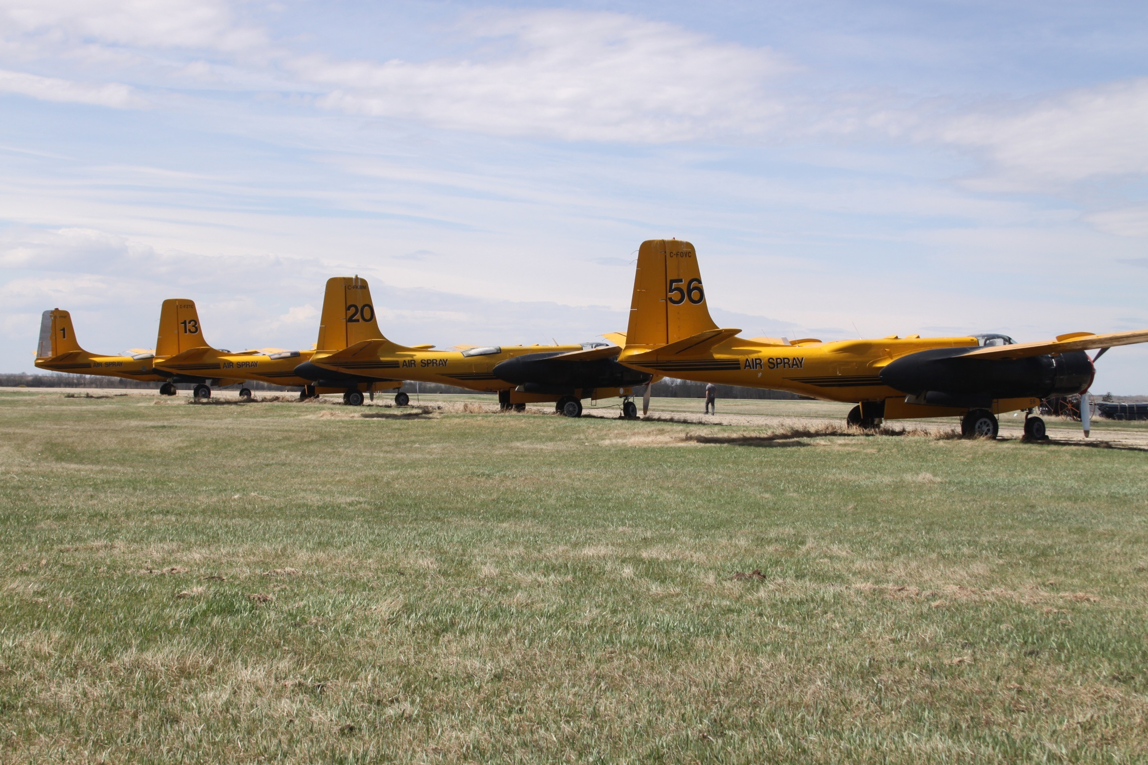 At Red Deer Regional Airport